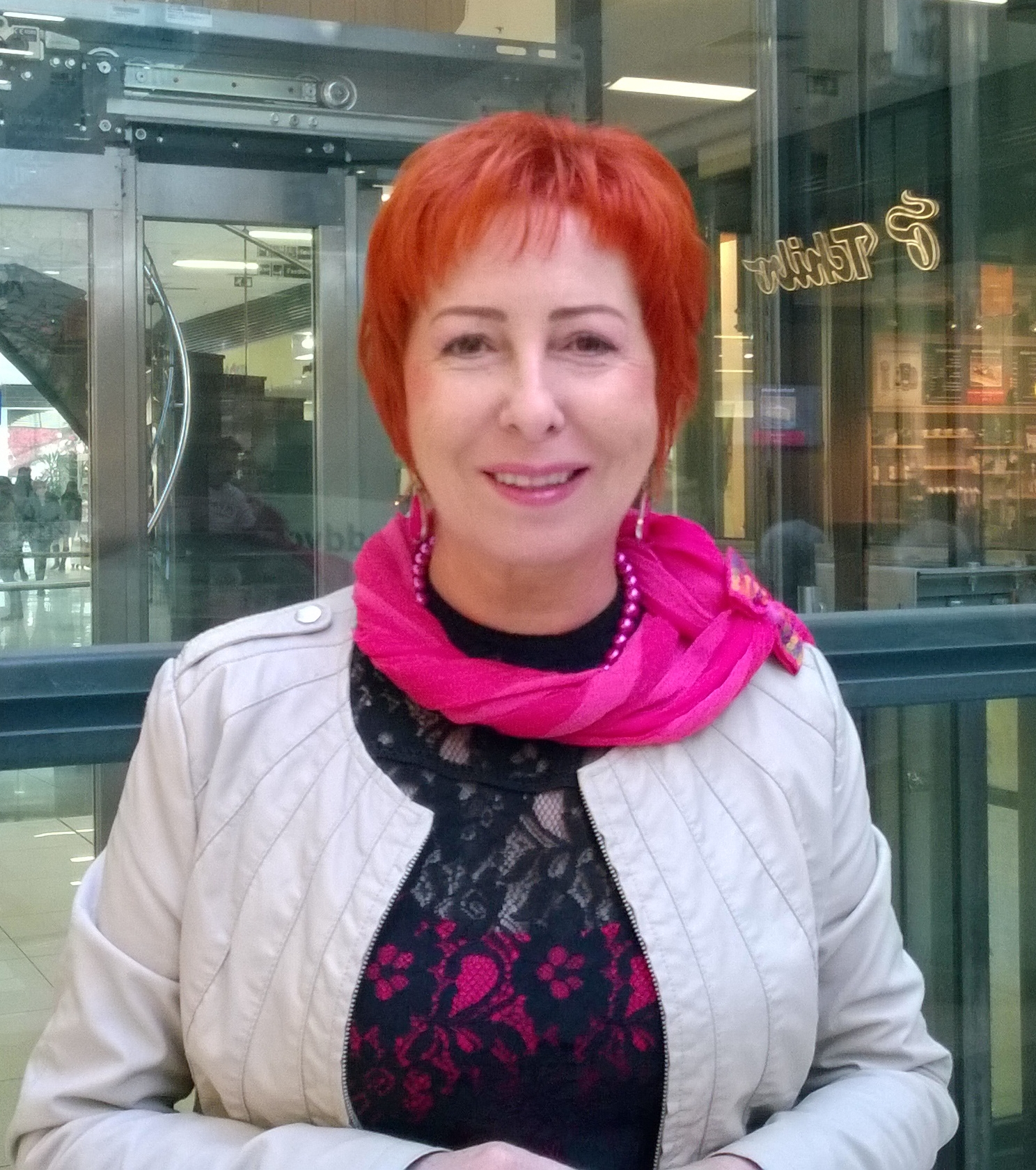 Janka Buršáková